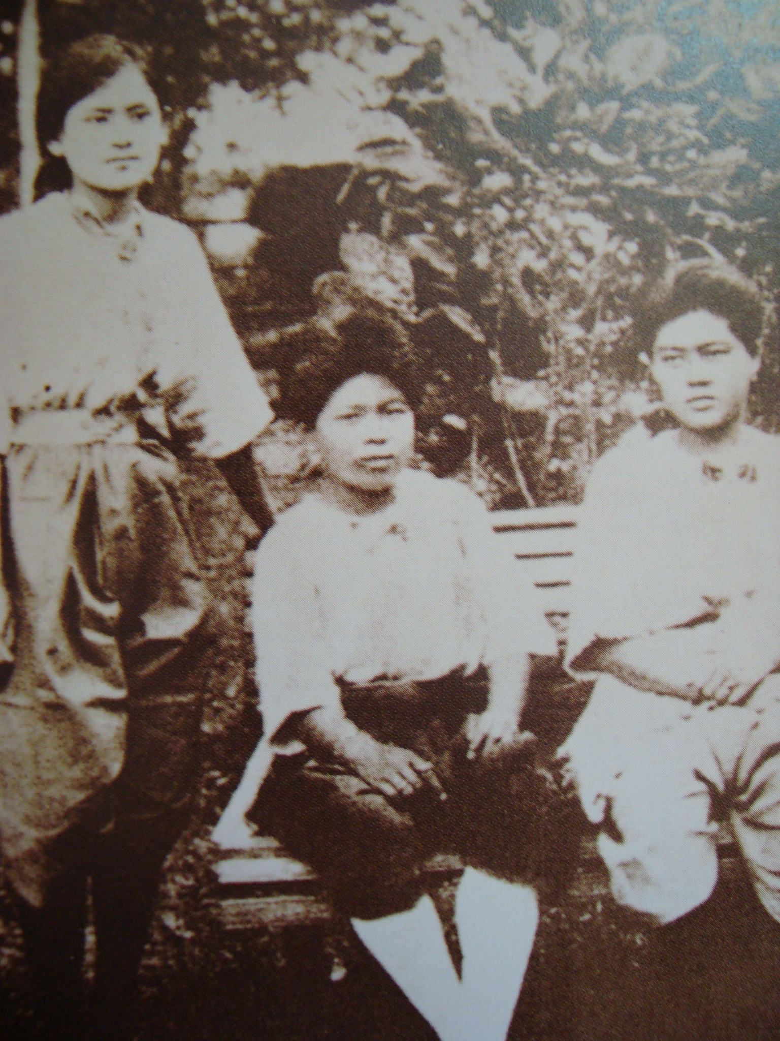 Princess Srinagarindra with her student friends while studying nursing at the United States